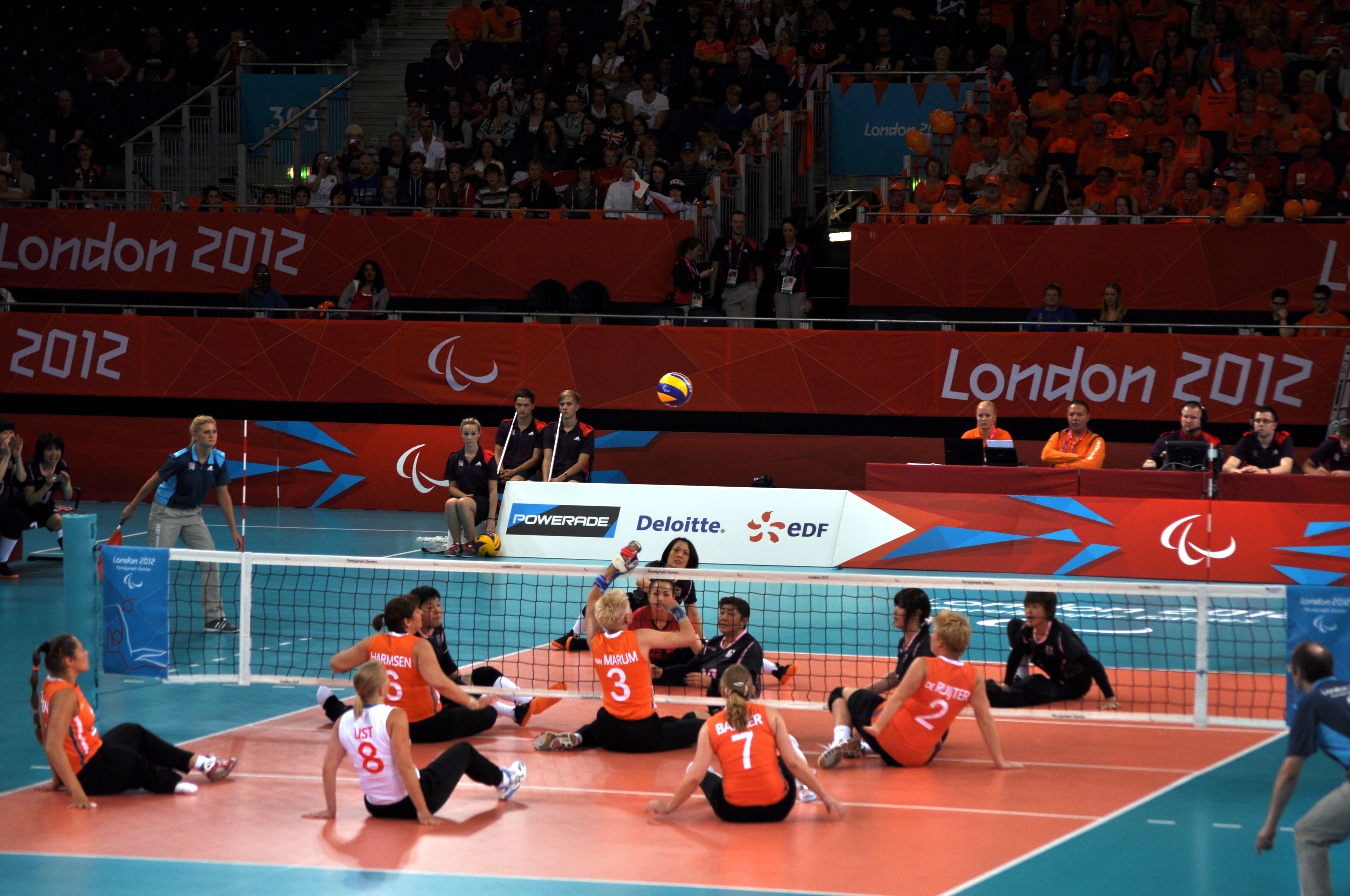 London 2012 Paralympic Games